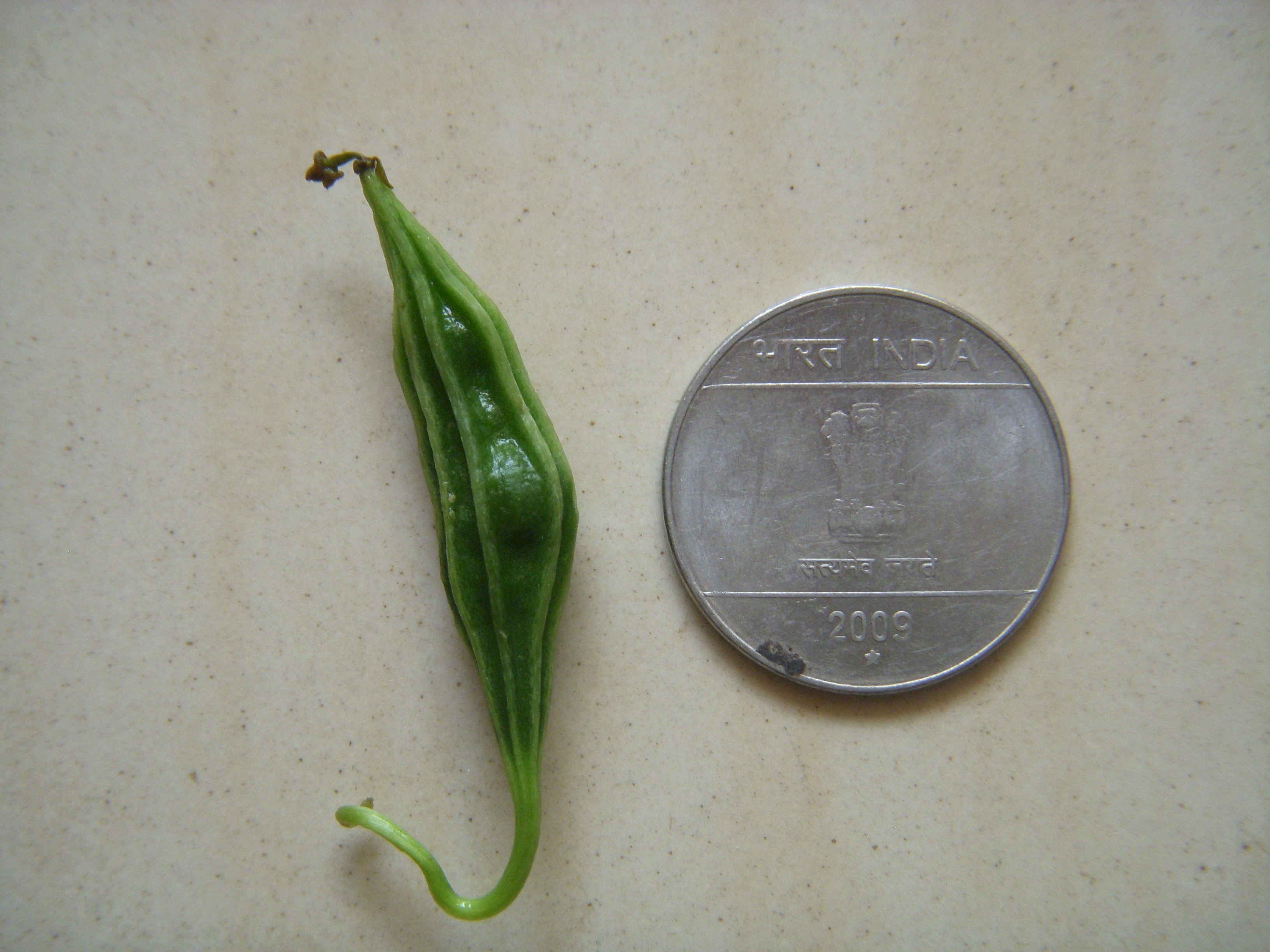 Momordica cymbalaria fruit next to a rupee coin showing its size (20-25 mm)